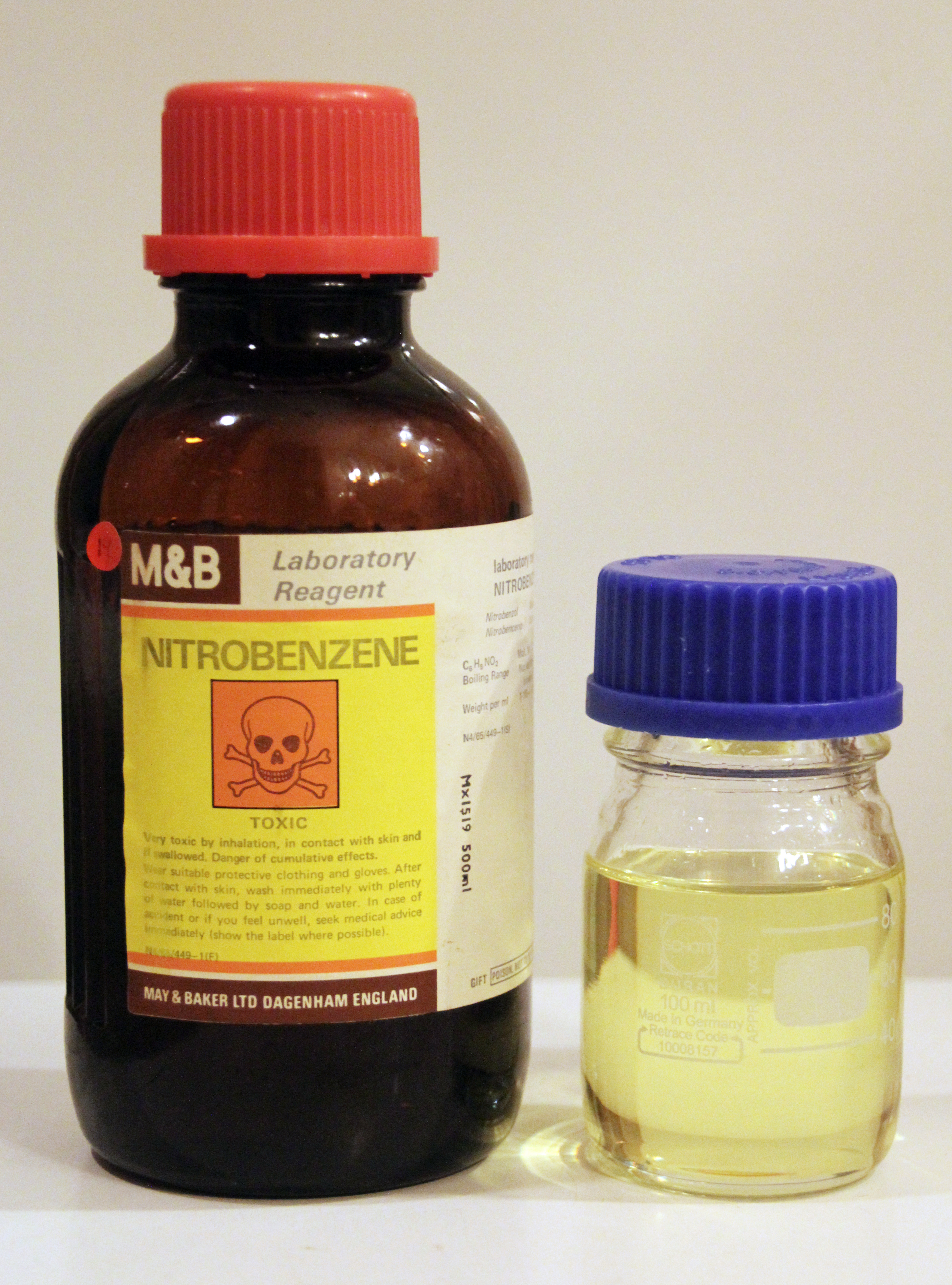 A sample of nitrobenzene.